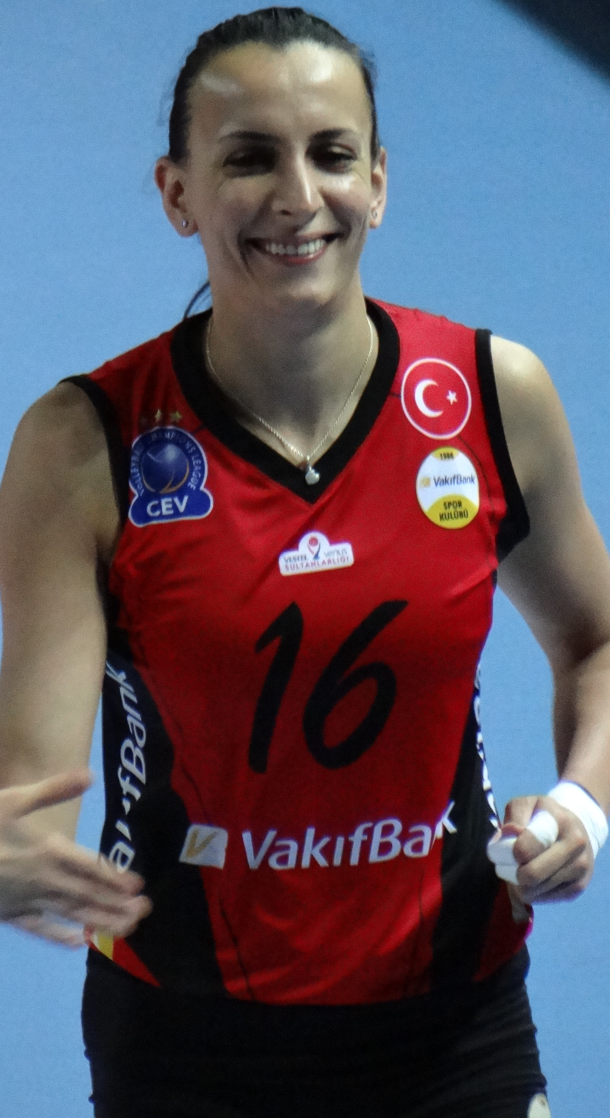 Milena Rašić 16 Vakıfbank SK TWVL 20180426